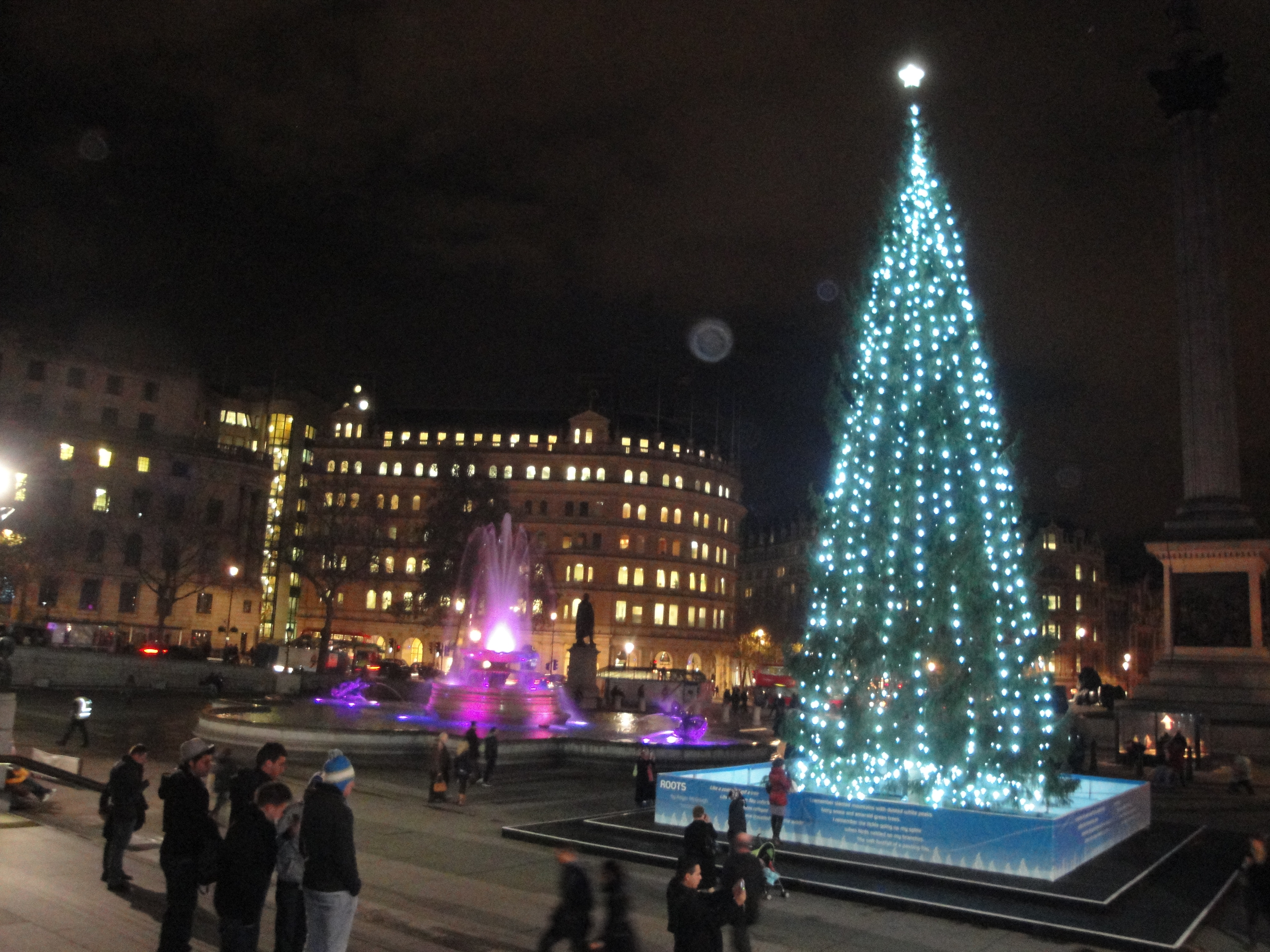 The Christmas tree, in Trafalgar Square, Westminster (borough), London, seen at night in December 2011.